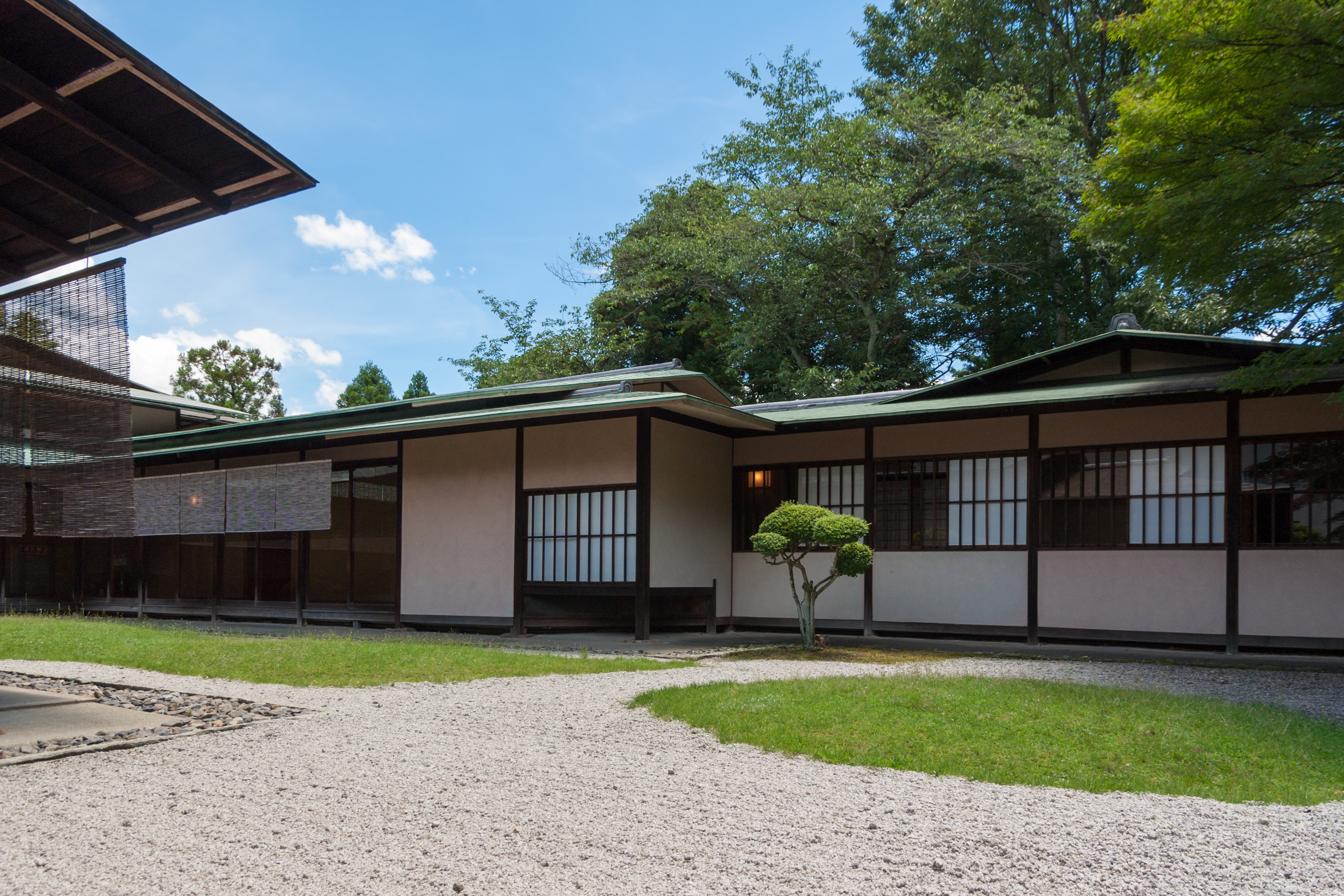 Photograph of the Kasuien Garden, a part of Westin Miyako Kyoto, in Higashiyama-ku, Kyoto, Kyoto Prefecture, Japan.